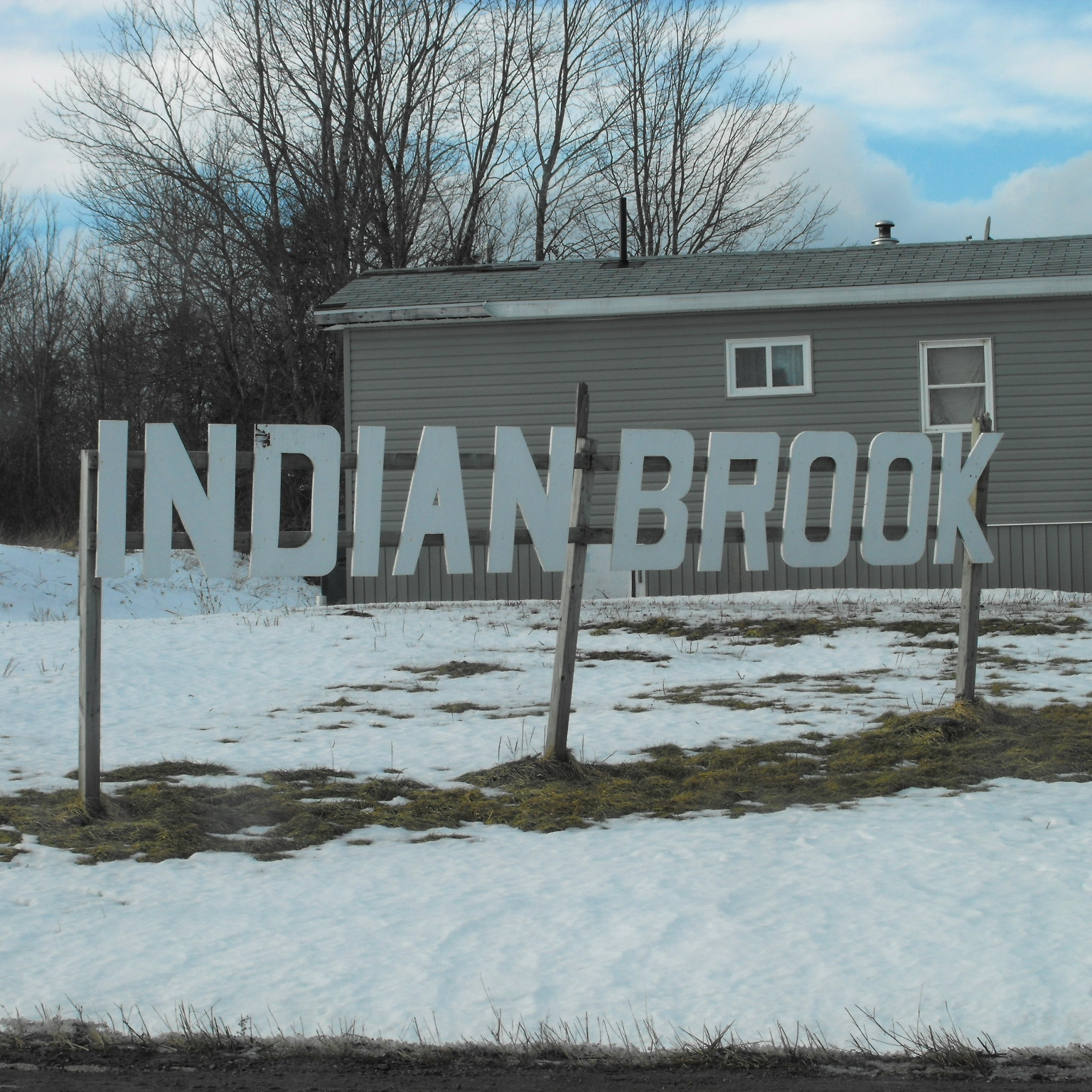 Entry sign for Indian Brook Indian Reserve near Shubenacadie, Nova Scotia